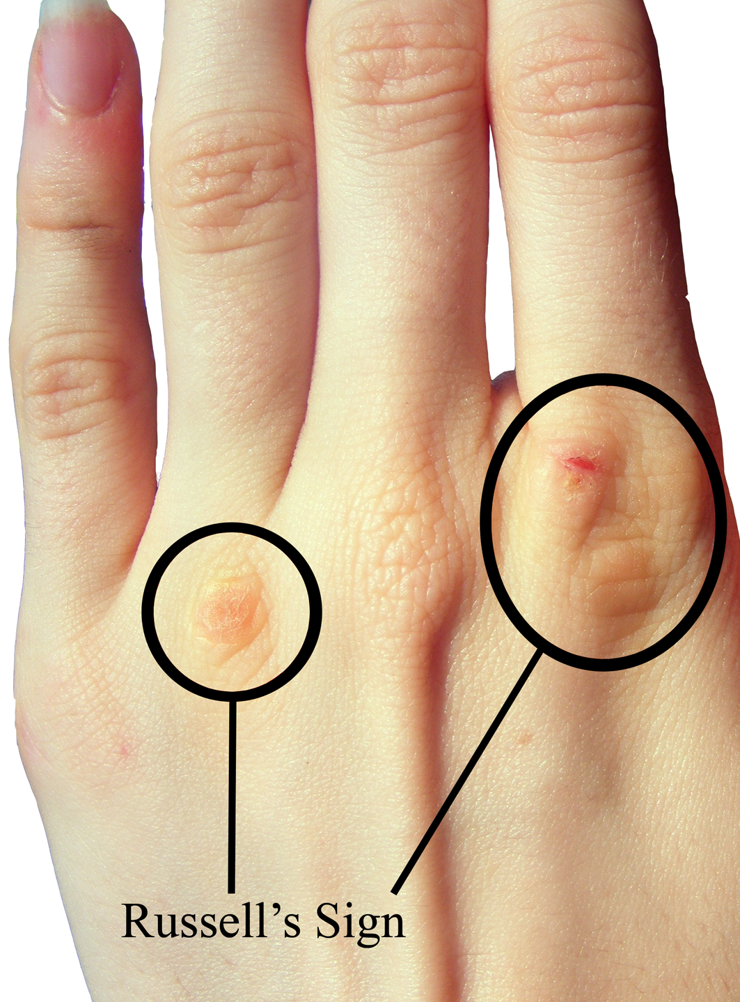 Russell's Sign on the knuckles of the index and ring fingers.